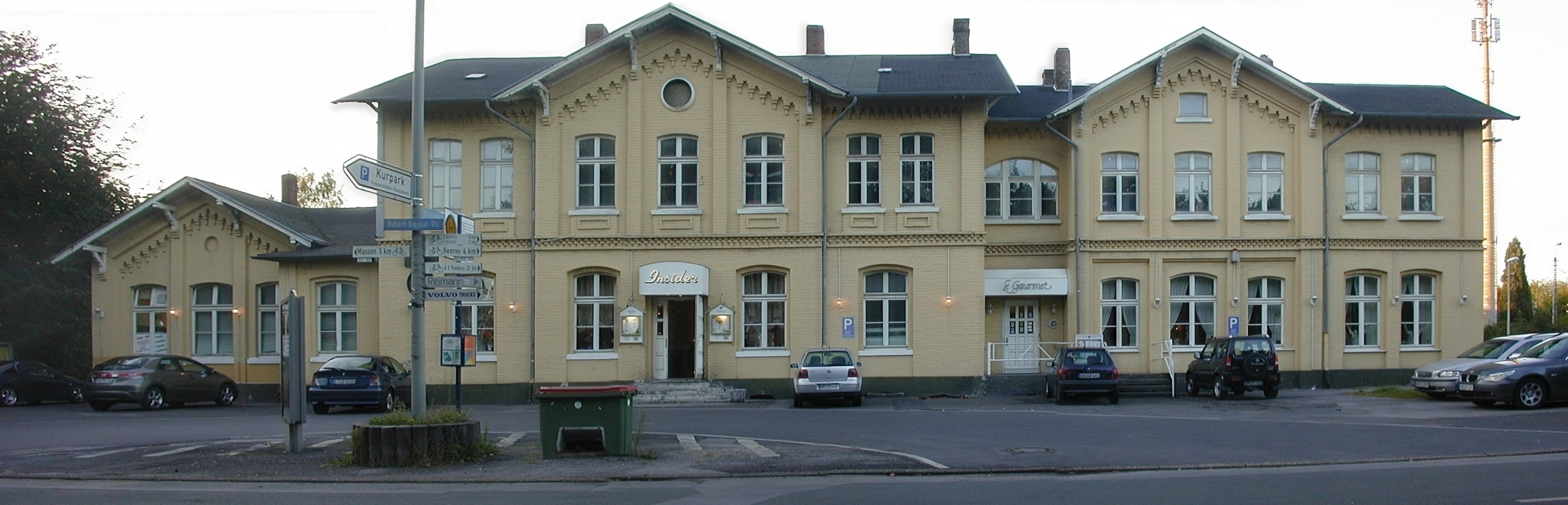 Bahnhof Unna-Königsborn This panoramic image was created with Autostitch. Stitched images may differ from reality.